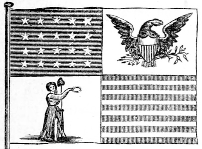 ↑ A proposed presidential flag from 1817, which was never adopted. It was proposed by Samuel Chester Reid during the Congressional committee discussions that would lead to the Flag Act of 1818 (which is still the definition for the U.S. flag), but apparently never got any further. The flag was described as a "national standard", and was to be "composed of the emblematic representations of our escutcheon quartered upon it: viz., the stars, white, on a white field under the stars; the eagle in the upper right-hand quarter or fly of the standard on a white field; and the thirteen alternate stripes of red and white under the eagle." The standard was to "be hoisted over the halls of Congress, at our Navy yards and arsenals, and at other public places visited by the President of the United States, during his presence." The reference is in an February 13, 1817 letter from Peter H. Wendover, the Congressman who was chairing the committee, to Samuel Chester Reid, who was the person who proposed the eventually accepted design of keeping 13 stripes while adding to the number of stars when states were added. The drawing is from a 1872 book on the U.S. flag; it differs from a sketch that Reid made in 1850, which switched the eagle and Liberty quarters, and showed the stars arranged in a larger star (which was the initial design used in 1818, though naval custom shortly thereafter used horizontal rows of stars only). Reid also originally intended it to be used for inaugurations and other celebrations, and not only for the president, calling it a "national standard".